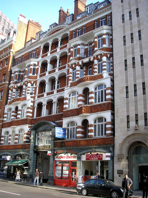 Westminster Palace Gardens, Artillery Row This beautiful building presumably dates from around 1900. We seem to have lost the ability to construct attractive buildings in the modern era.